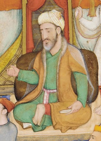 Munim Khan holding a robe of honour which he will give to Daud Khan Karrani.